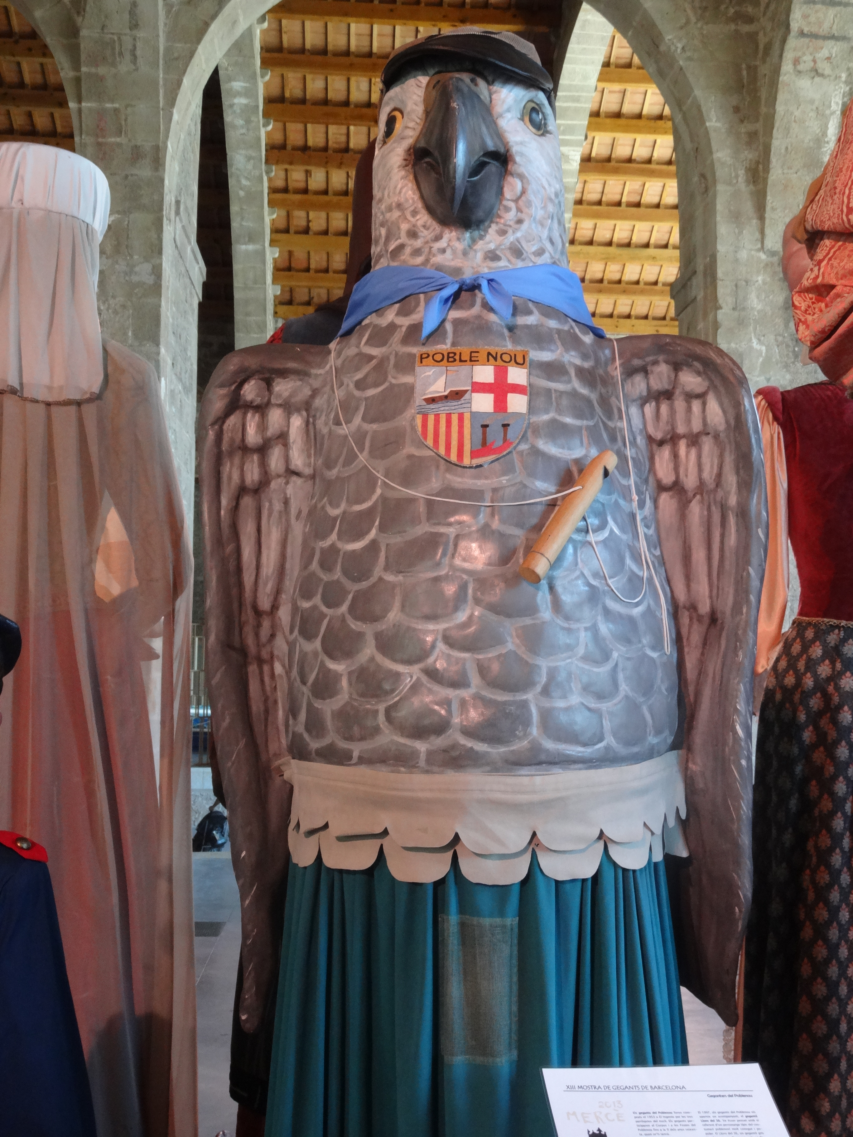 Exhibition of Giants at the Museu Marítim, Barcelona, 2013.